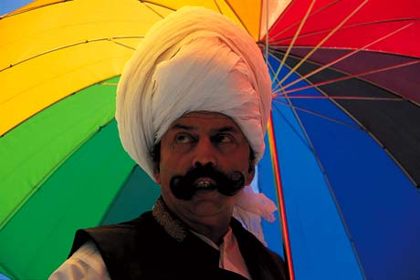 Prince Malik Ata Muhammad Khan